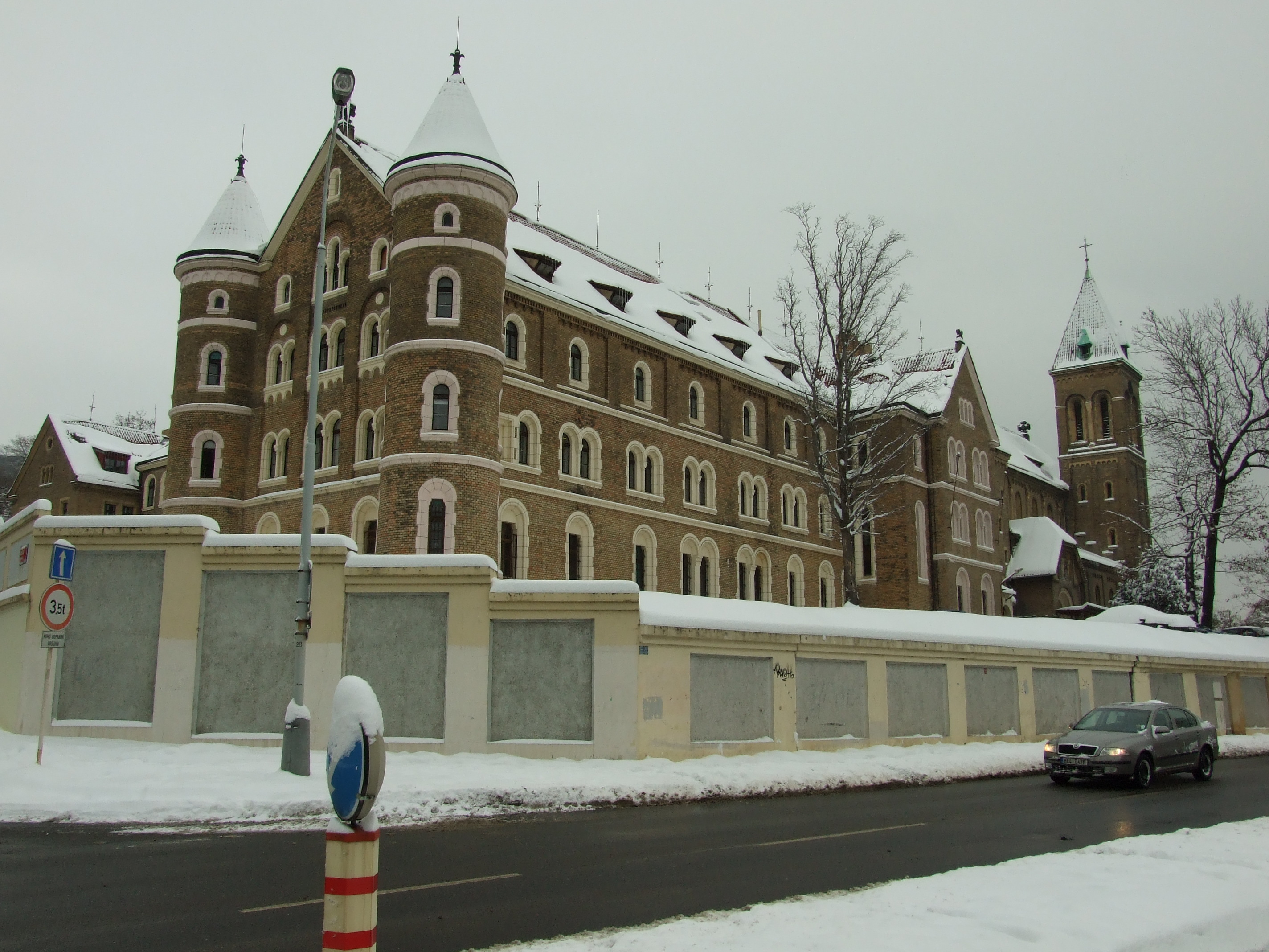 St. Gabriel church in Prague-Smíchov covered by snow in January 2010. Prague, CZhelp